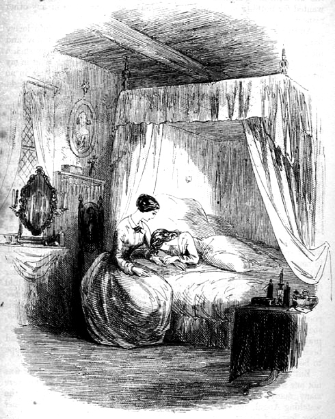 Nurse and Patient Phiz (Hablot K. Browne) 1853 Etching 5 x 4 inches on a page of 8 7/16 x 5 inches Facing p. 309 (ch. 30, "Esther's Narrative") of Dickens's Bleak House